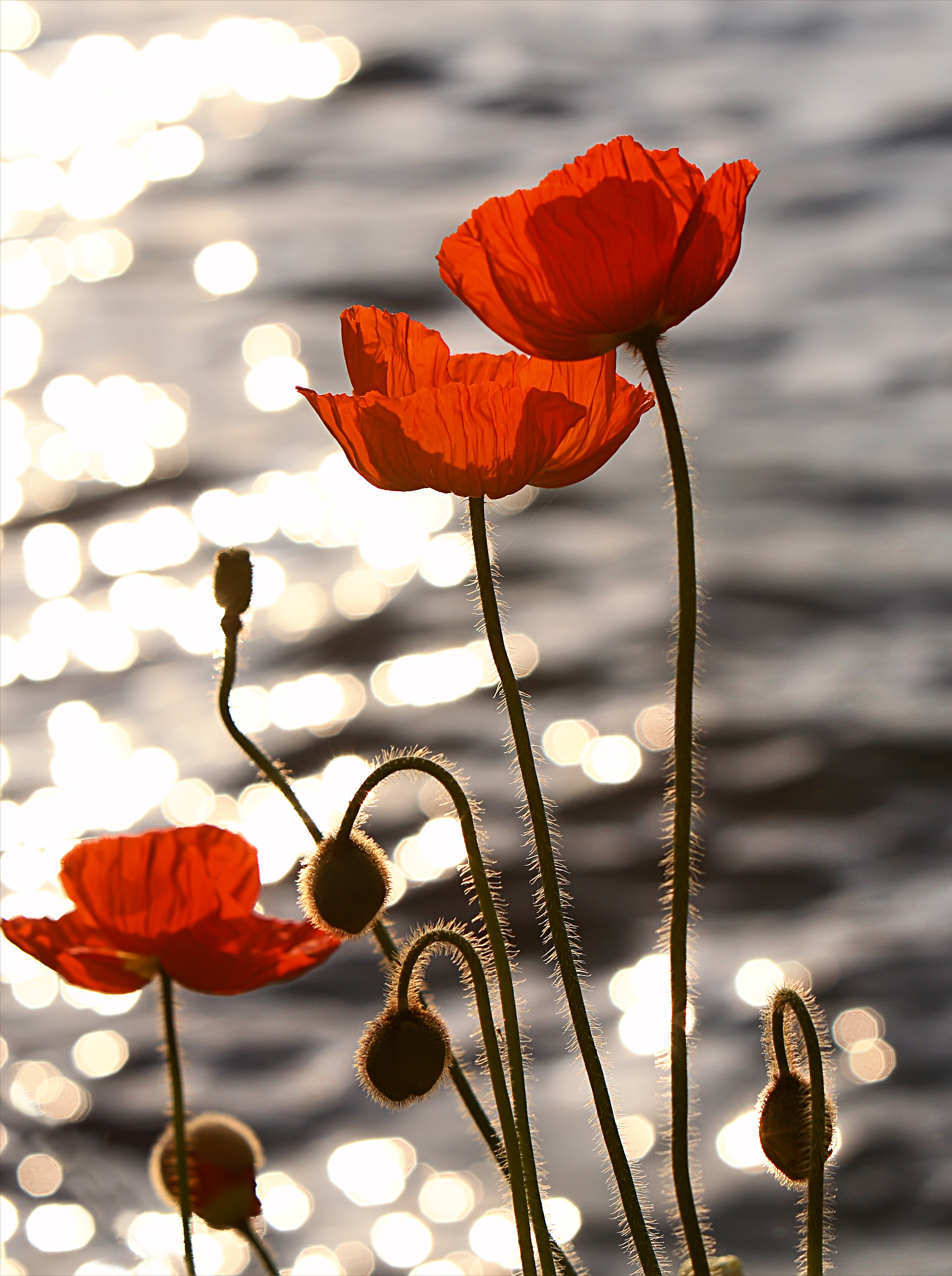 Poppies in the Sunset on Lake Geneva. It's a lovely walk along the promenade in Montreux. View (Large) On Black